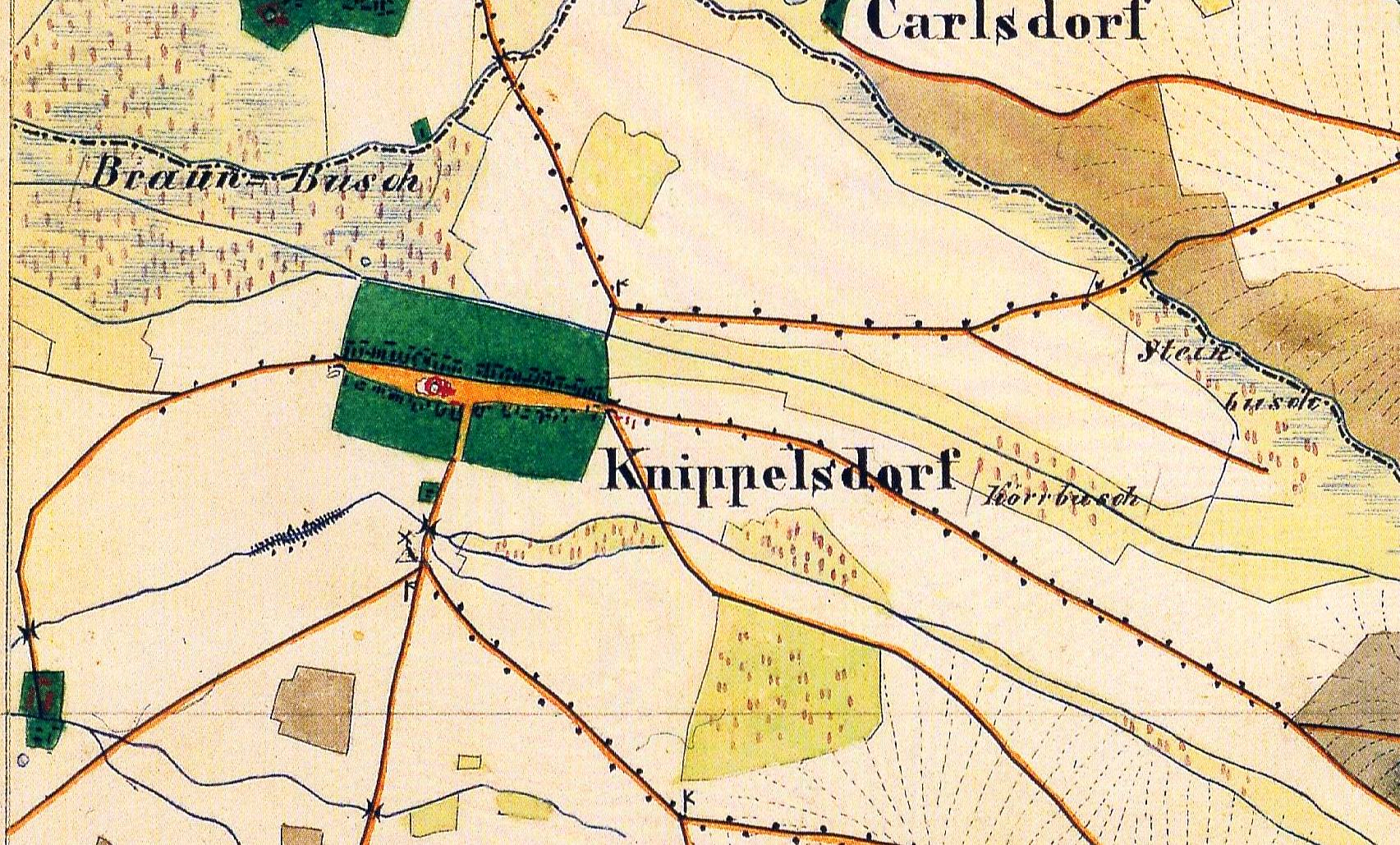 Knippelsdorf, Lkr. Elbe-Elster, Brandenburg, Germany, detail from the Urmesstischblatt Sheet 4146 Dahme, drawn in 1847